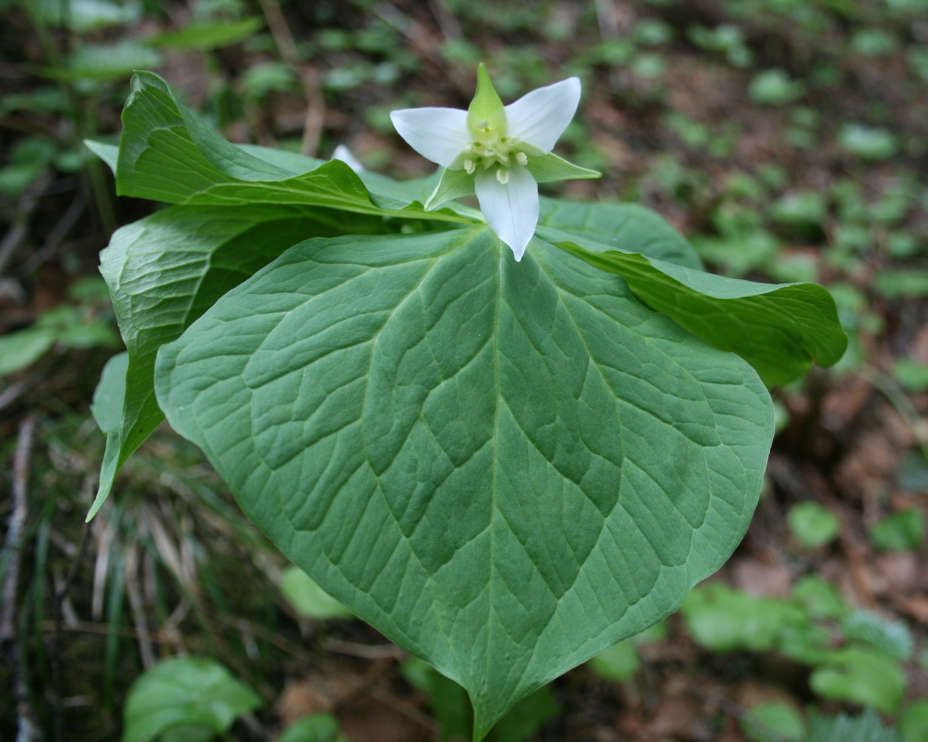 Trillium tschonoskii, in Mount Yake, Takayama, Gifu prefecture, Japan.